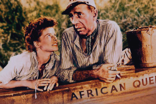 Publicity still for the 1951 film The African Queen, featuring Katharine Hepburn and Humphrey Bogart. The colour blanace here has been slightly changed from the original (which can be seen by clicking the source link below).